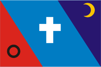 Minanao Republic Octuber 1990